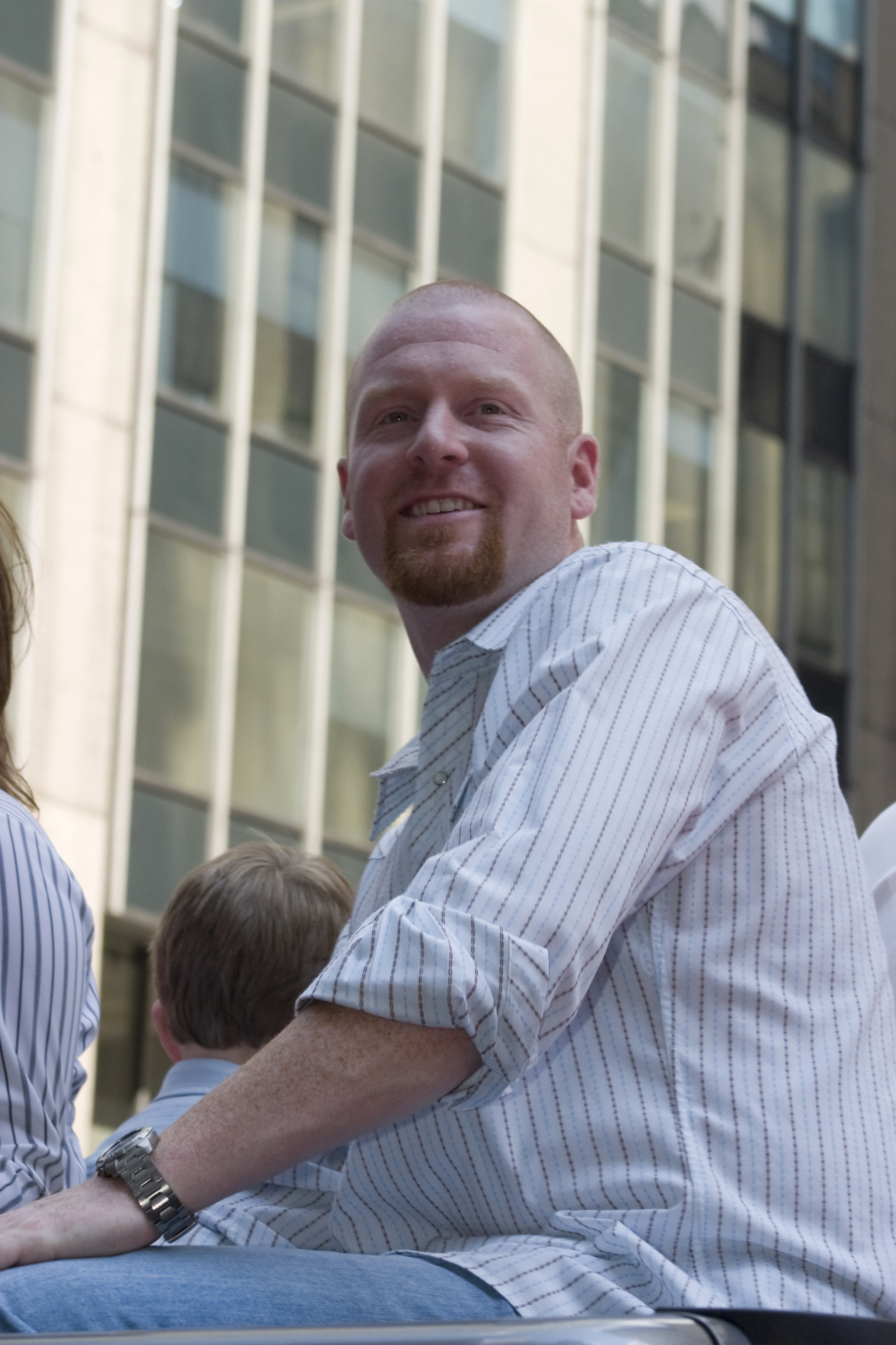 Aaron Cook. © Rubenstein, photographer Martyna Borkowski